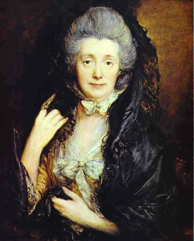 portrait of the artist's mother